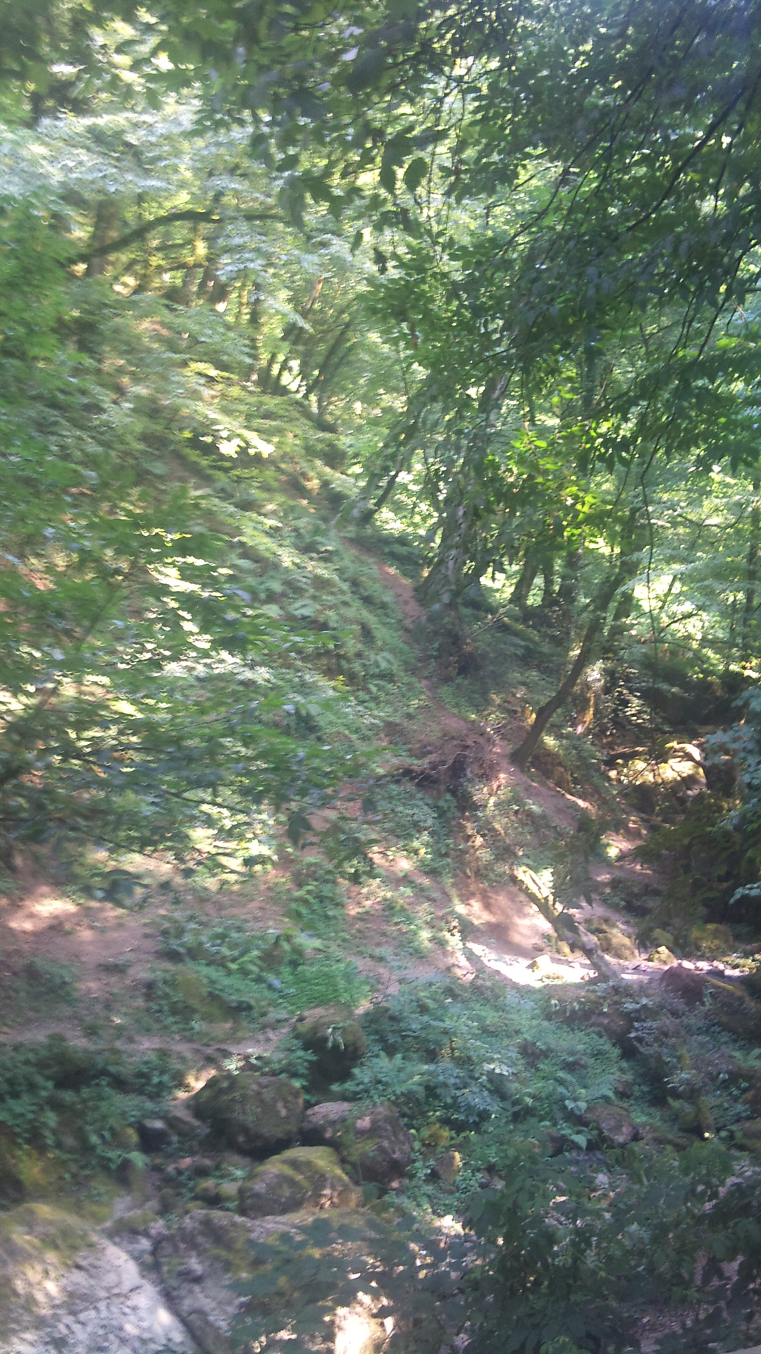 Gilan's Jungle